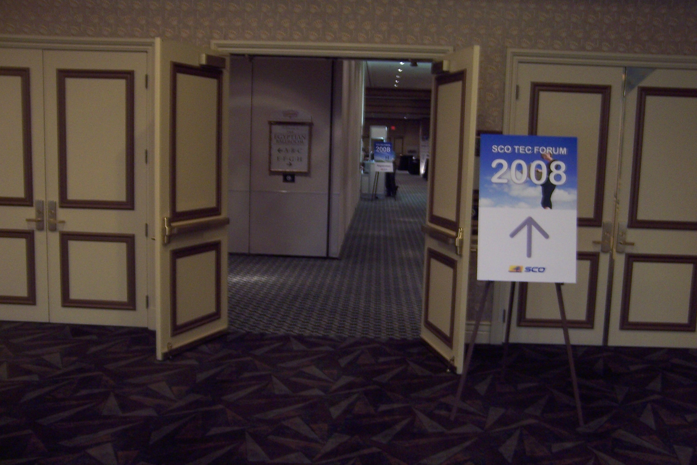 Entrance signs as seen on the Sunday evening of SCO Tec Forum 2008 in the conference rooms area of the Luxor in Las Vegas, Nevada.